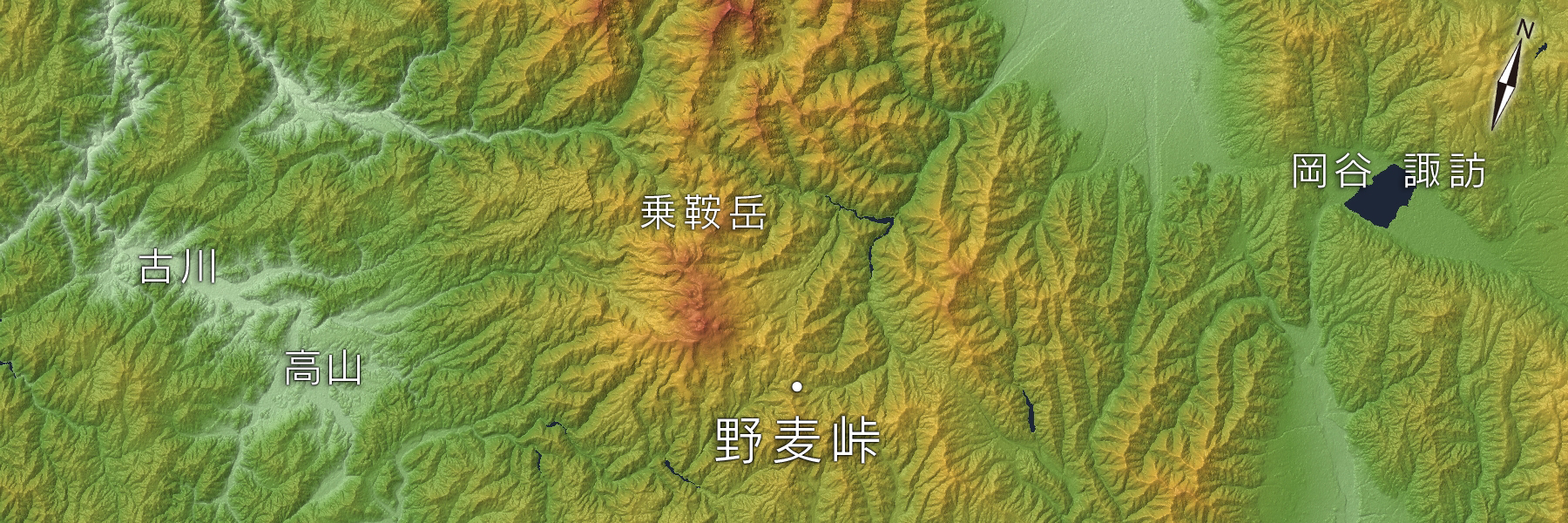 Around Nomugi Pass in the border between Gifu and Nagano prefectures, Honshu, Japan.